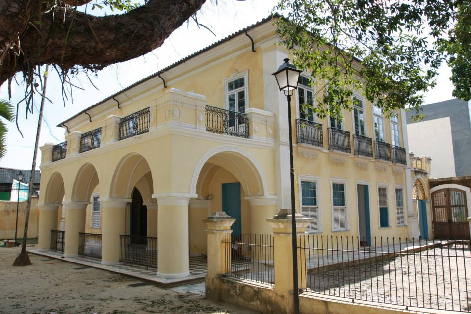 House of the Samba, place of stay of the Emperor of Brazil in 1859